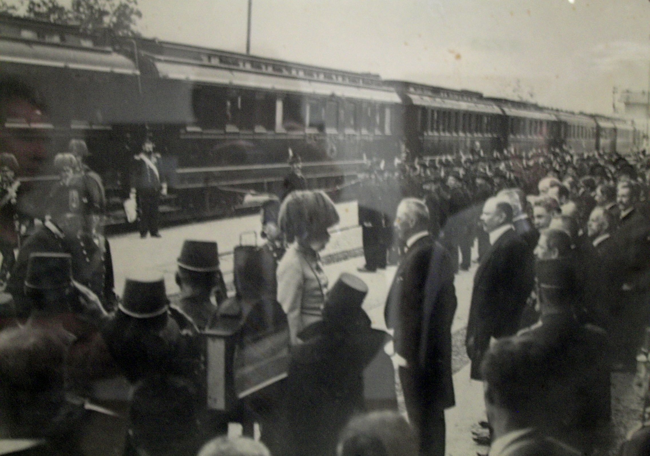 Emperor Franz Joseph I. of Austria-Hungary visits Wörgl (Tyrol, Austria).